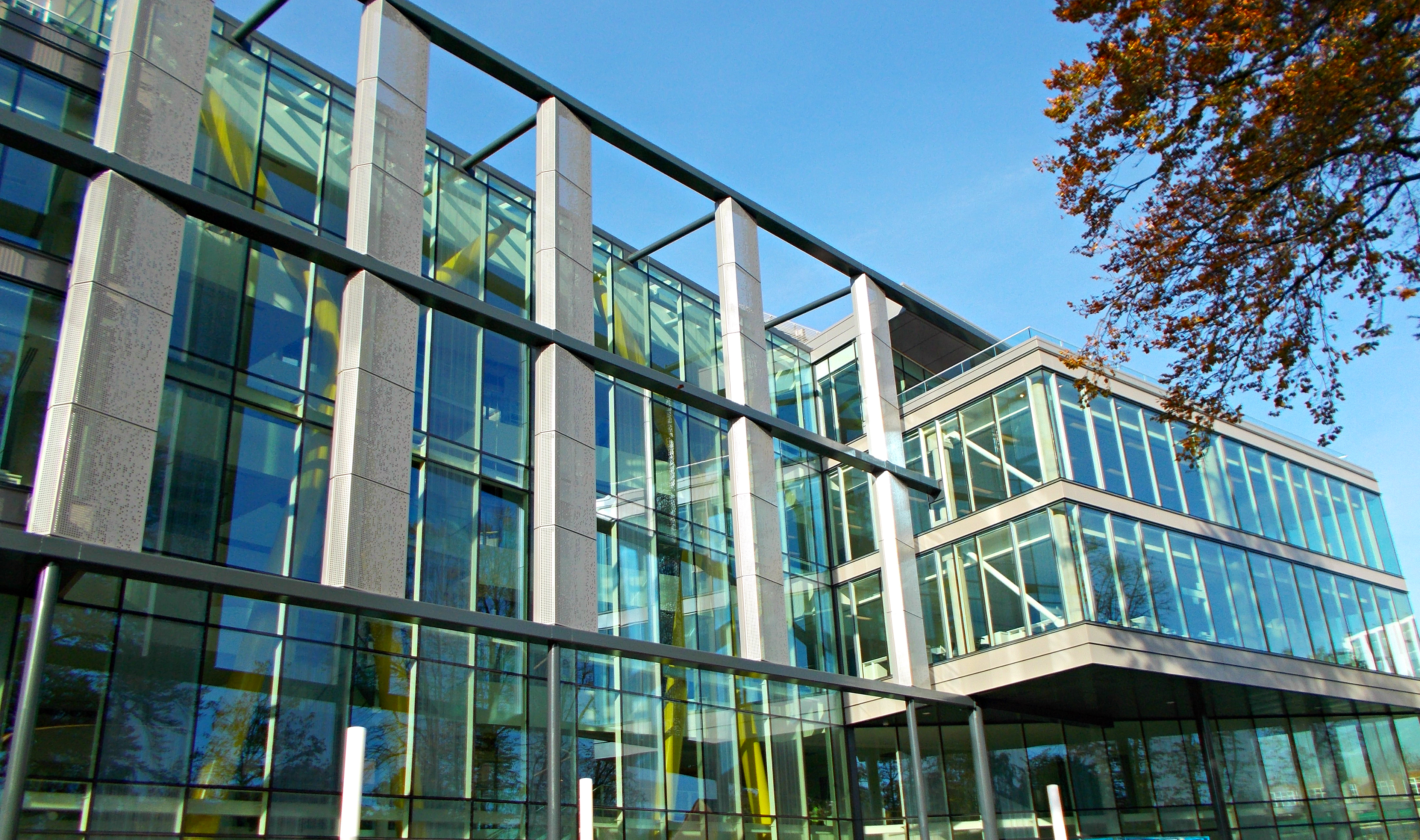 Subsea 7's new five-storey, 17,500 square metre office building in Sutton is the company's new UK headquarters. Four hundred jobs have been added in Sutton, mainly by relocation from outside the town. Construction of the £39 million development by Galliford Try started in 2014, and was completed in late 2016.